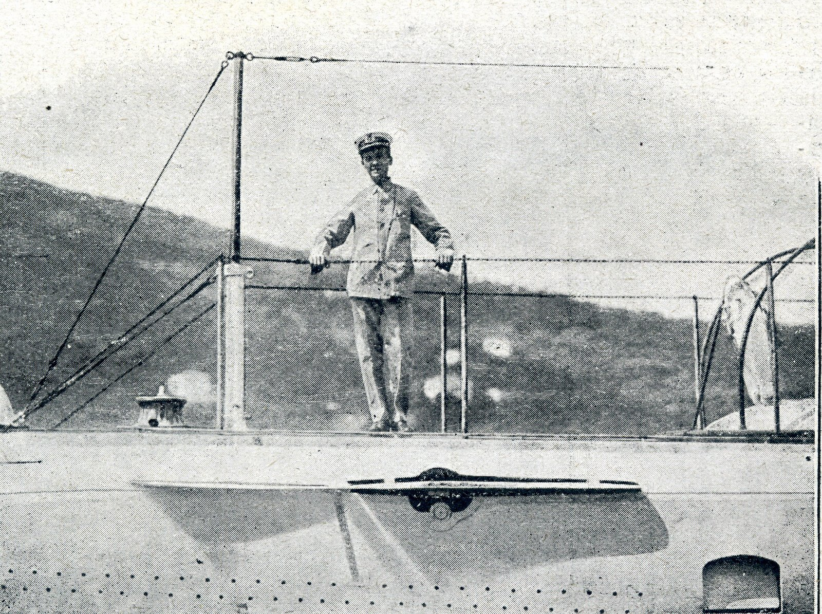 Spanish Navy Lieutenant Commander and later Admiral Mateo García de los Reyes, founder of the submarine branch in Spain, on the bridge of a Laurenti class A submarine. 1917